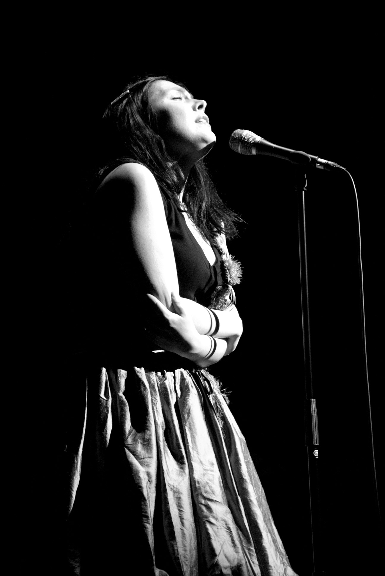 Portuguese quartet band Deolinda playing Melkweg, Amsterdam.